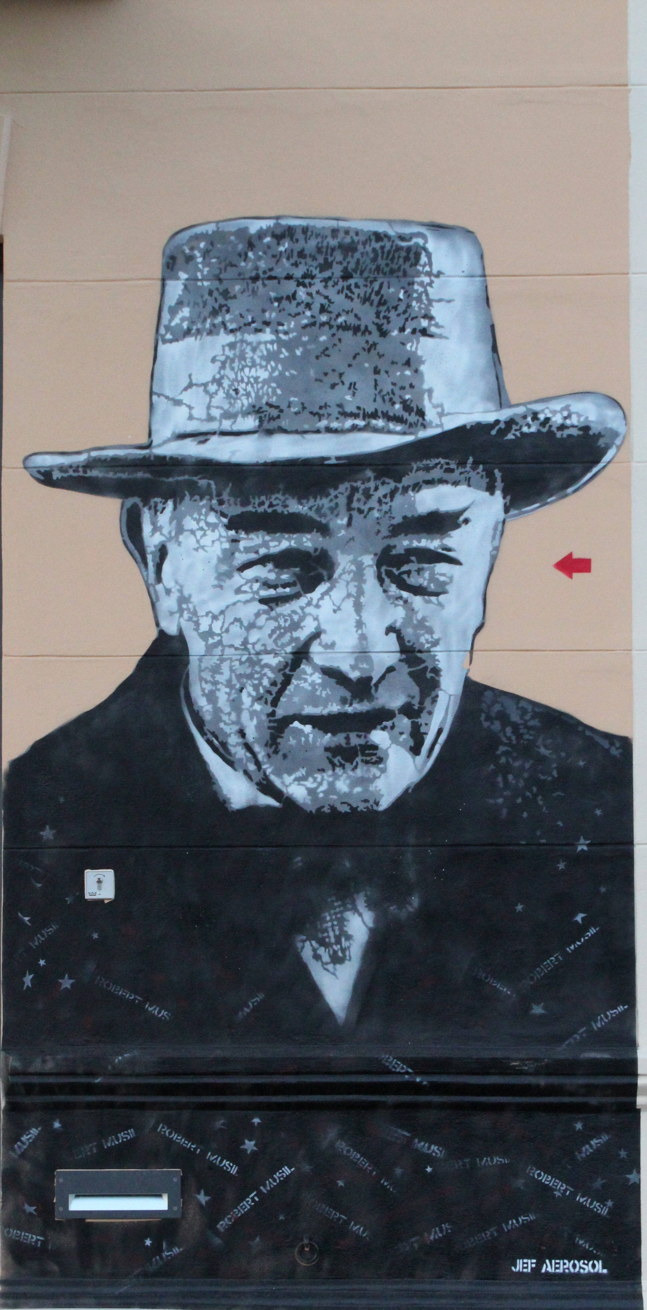 Grafitti from Jef Aerosol at the Robert Musil Museum in Klagenfurt: Robert Musil